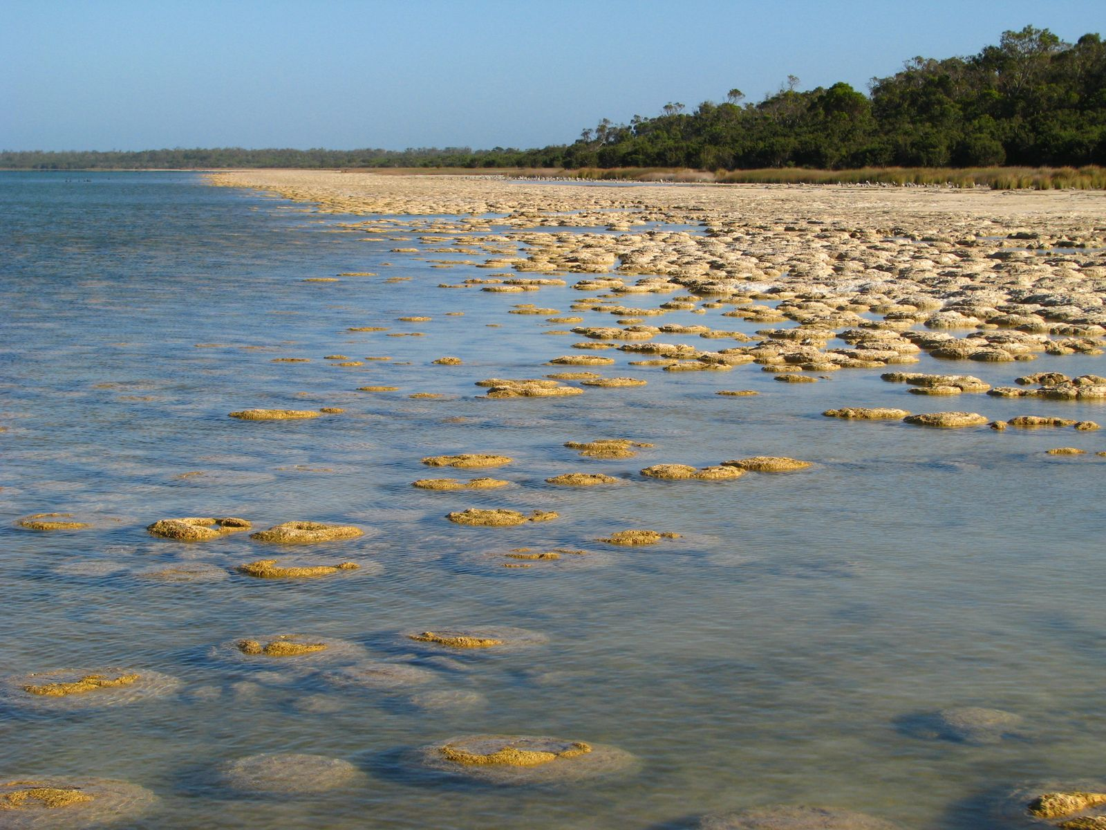 Stromatolites growing her in Yalgorup national park in Australia (there are also other stromatolithes in Shark Bay and in Western Australia. Stromatolites are "attached, lithified "sedimentary" growth structures, accretionary away from a point or limited surface of initiation."